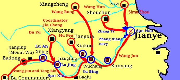 Translation of the original file. Did not update the old one due its usage in other Wiki languages where the file is appropriate.